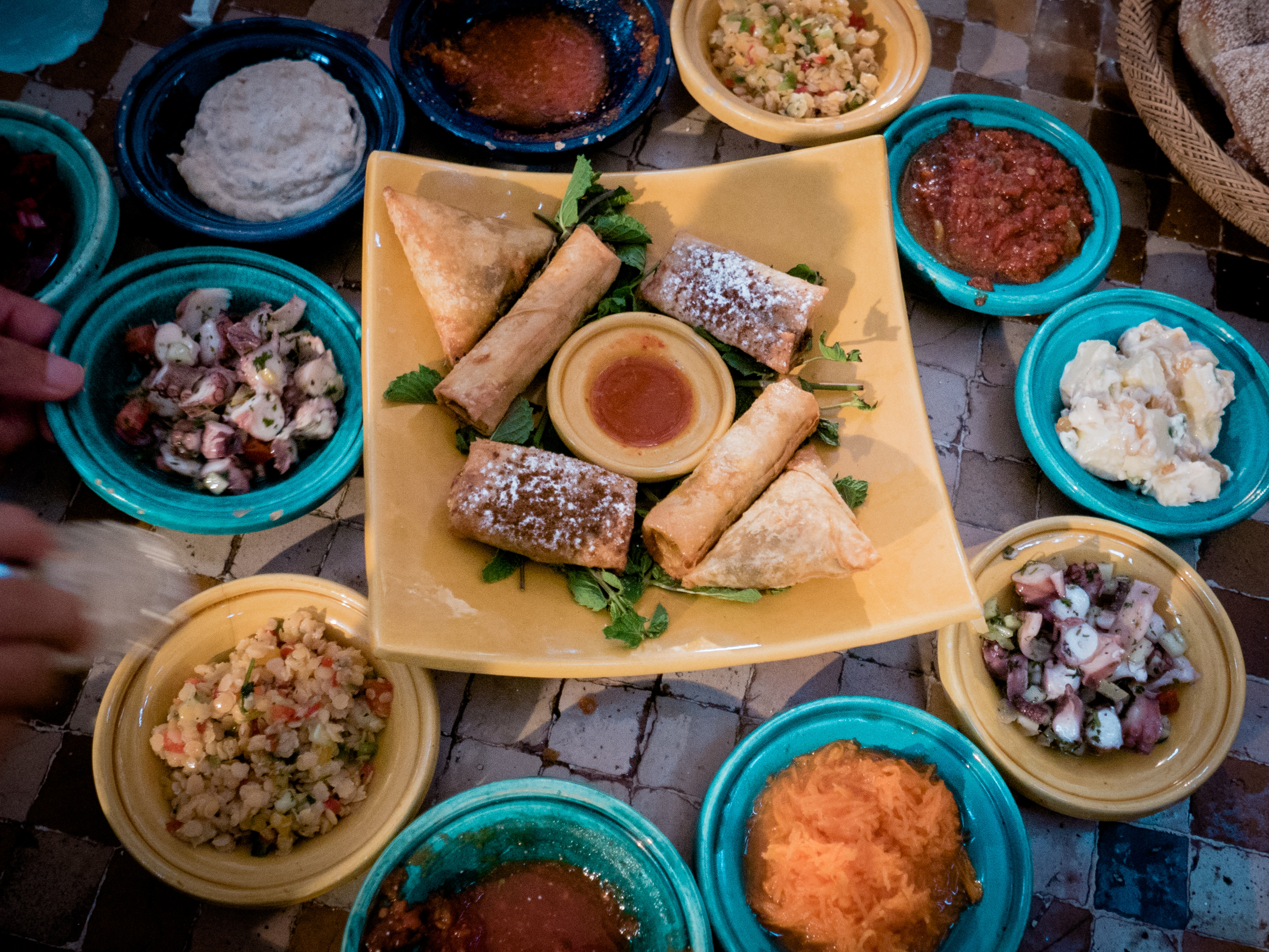 Arabic Shells Dips Sauces Dumplings Appetizers Vegetables